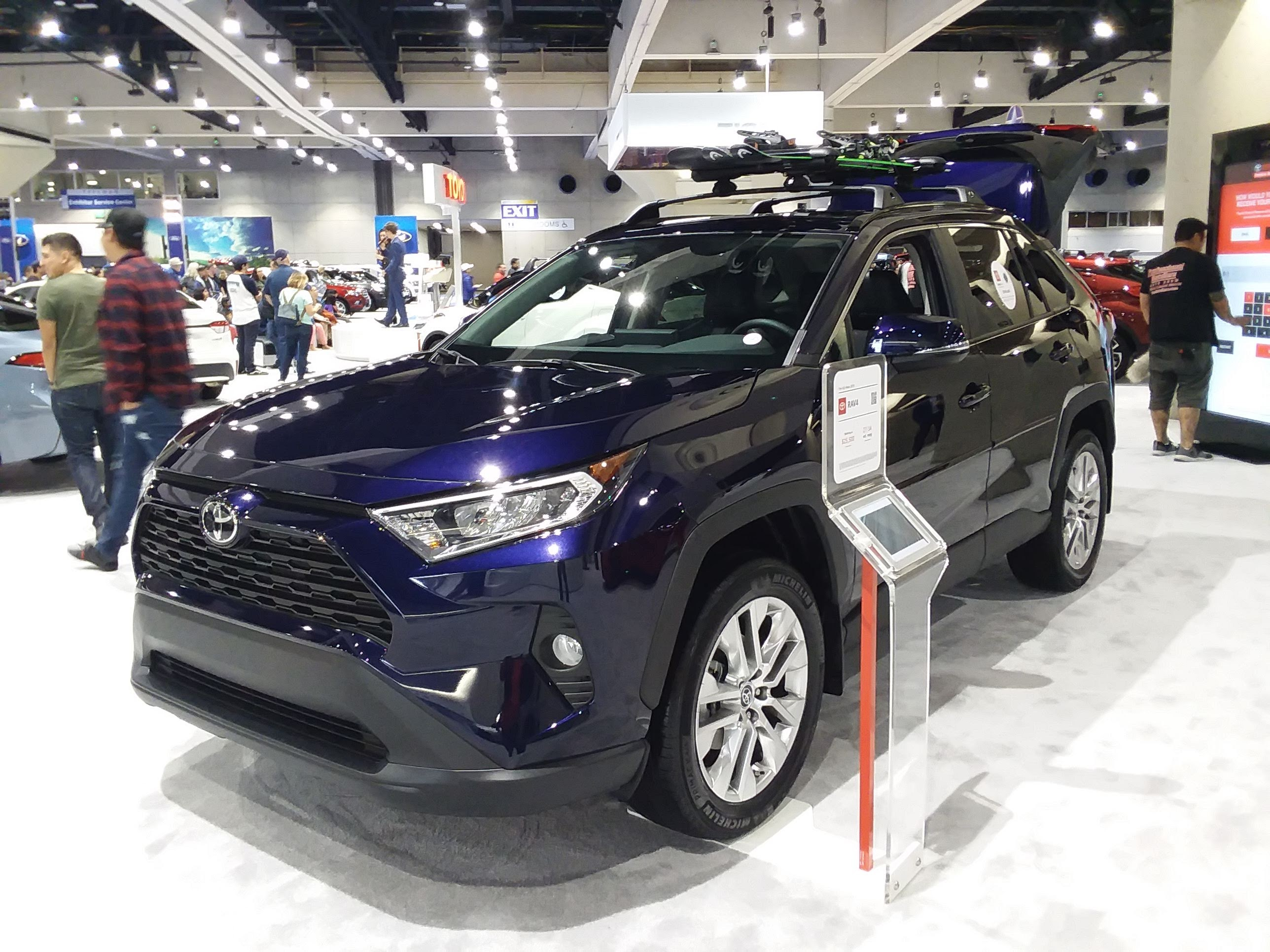 Toyota RAV4 2019 (XA50) CUV quarter front view. Manufactured in Obu, Aichi, Japan.